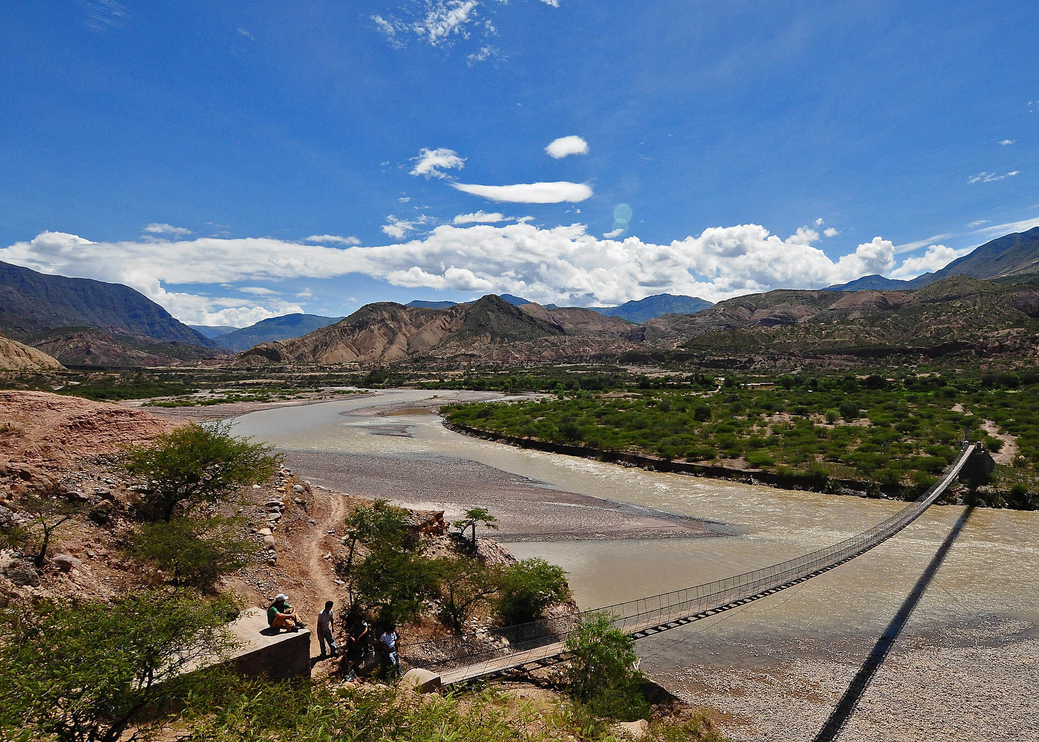 Norm Arnold photo of footbridge Chaypara, La Merced District, Churcampa Province, Huancavelica Region in Peru.